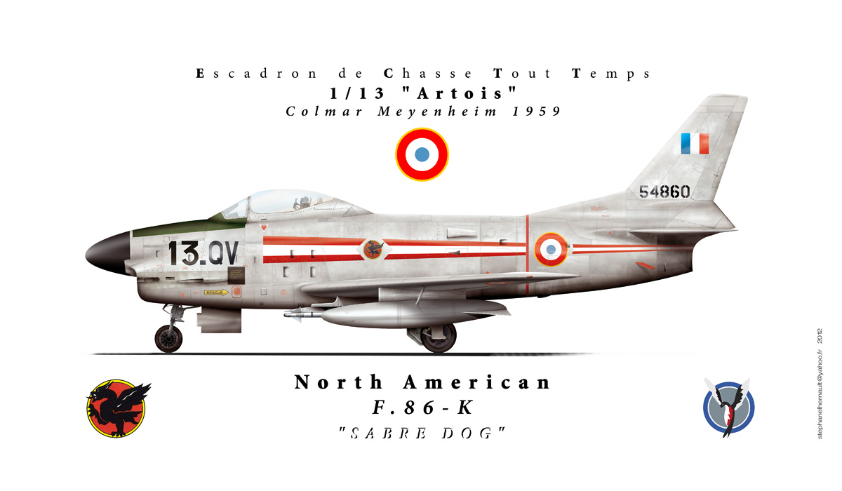 North American F86K french air force 1/13 "Artois" sqdron